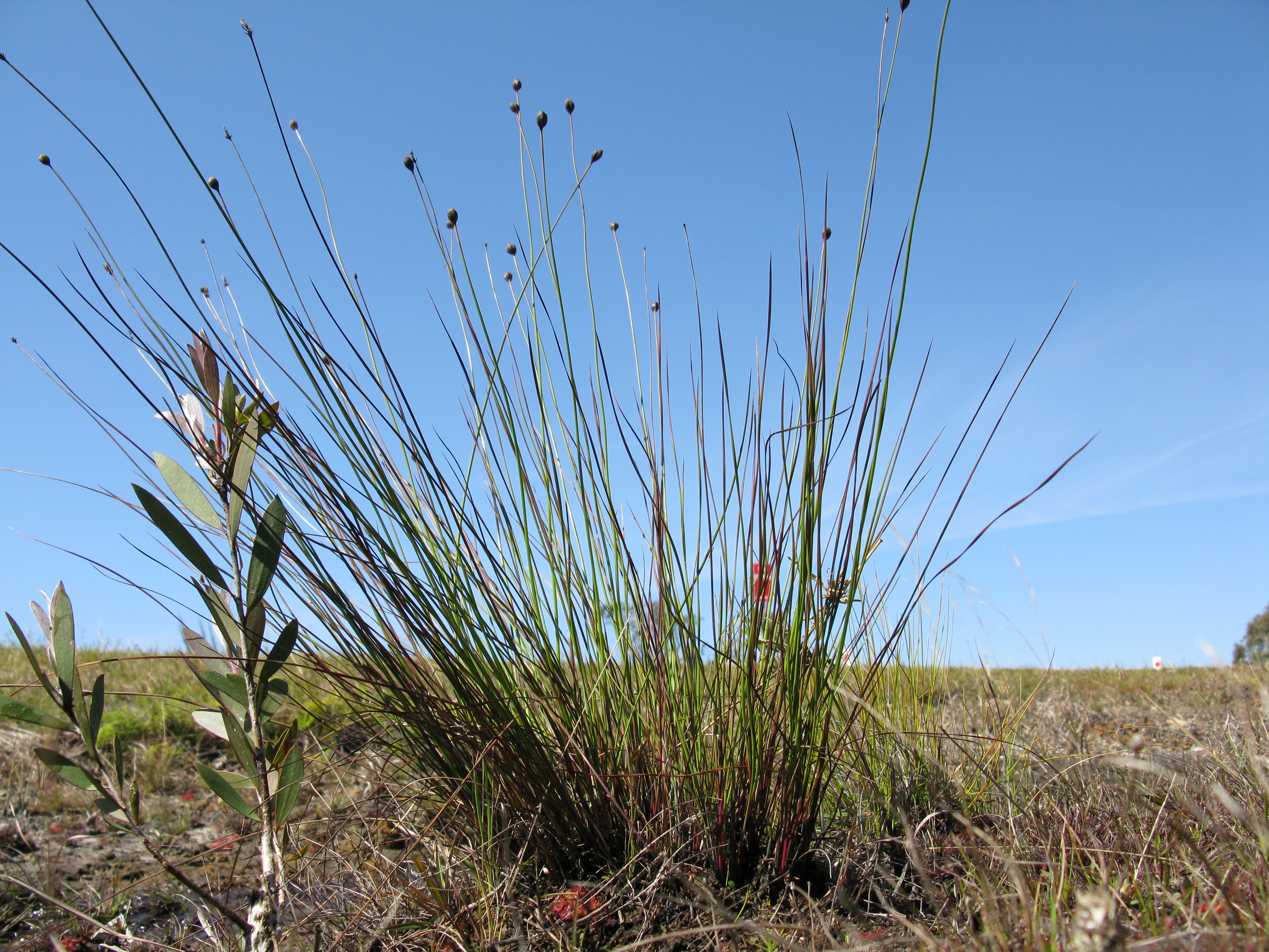 Native, warm season, perennial, Tufted herb 60-90 cm tall. Leaves are subterete, 20–60 cm long and 0.5–1 mm diam.; sheathing bases are 5–11 cm long, red to reddish tawny brown or black and often shiny. Flowerheads are obovoid and 9–13 mm long. Outer tepals 3, are brown to blackish brown with golden brown wings. Inner tepals 3, are petaloid and yellow; margins entire. Flowering is from late spring to summer. Found chiefly in coastal districts and on the ranges. Grows in damp or swampy areas, often in heath.